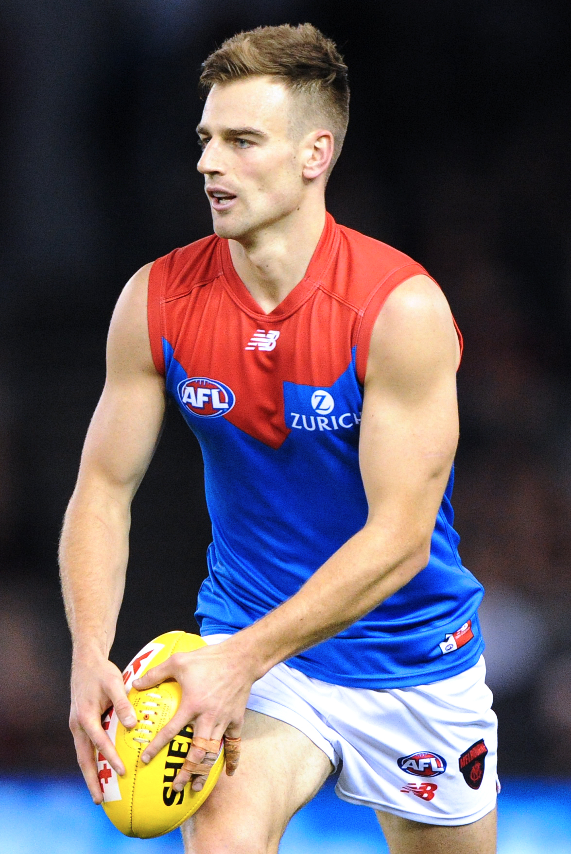 Dom Tyson of Melbourne during the 2018 AFL round 6 match between Essendon and Melbourne at Etihad Stadium on Sunday, 29 April 2018 in Melbourne, Victoria.